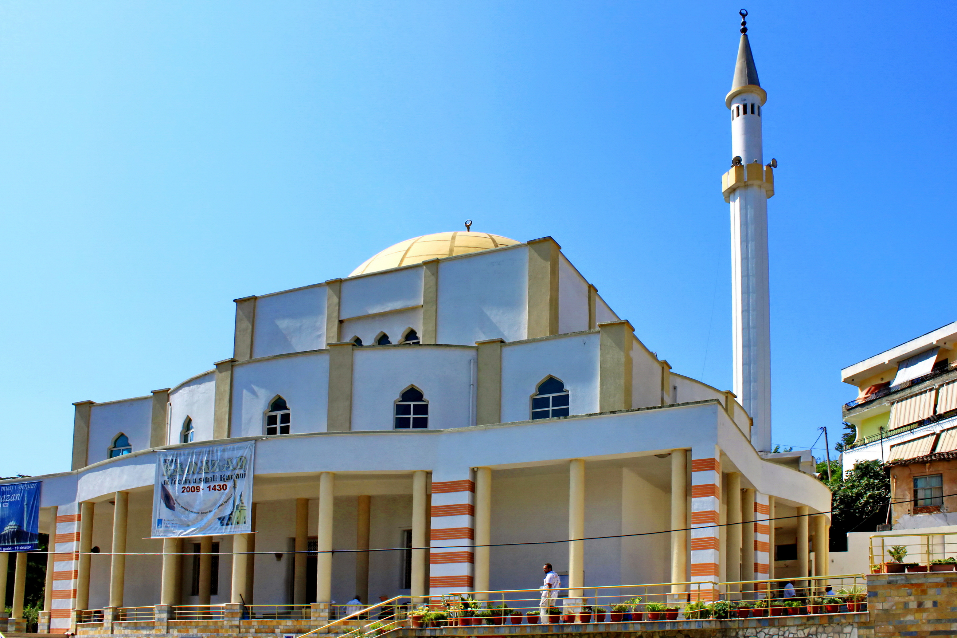 The Great Mosque, Durrës, AlbaniaShqip: Xhamia e Madhe, Durrësi, Shqipëria